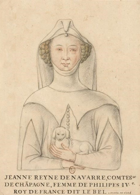 Joan I of Navarre